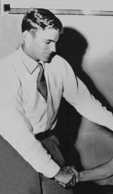 1954 Press Photo Ford Konno & Dick Cleveland, AAU swimming race, Yale University